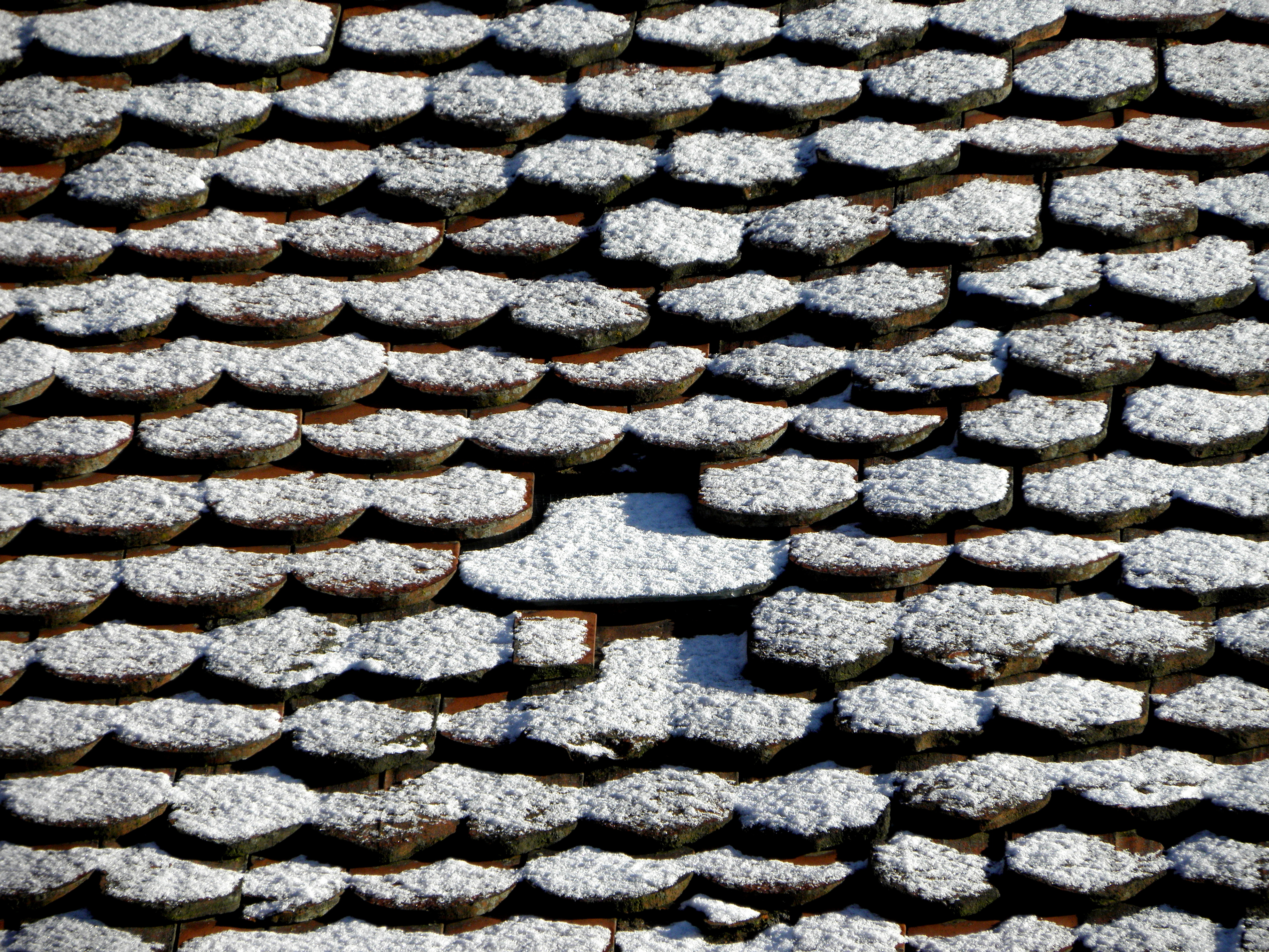 roof tiles